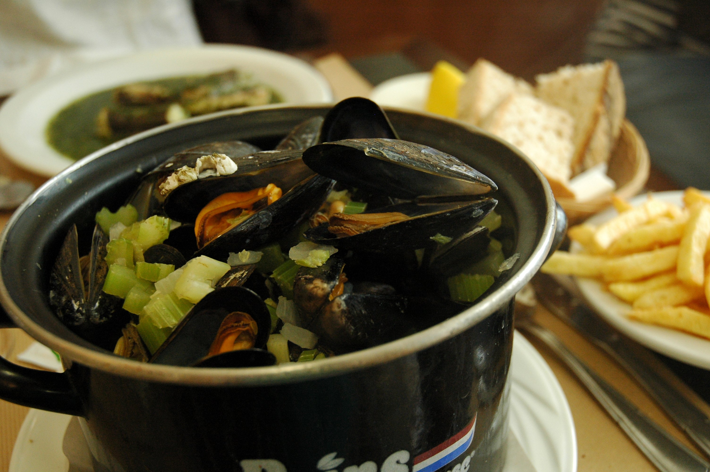 Mussels in white wine (moules au vin blanc) at Au Pré Salé.